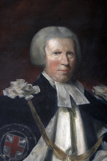 Portrait of George Pretyman Tomline (1750-1827)